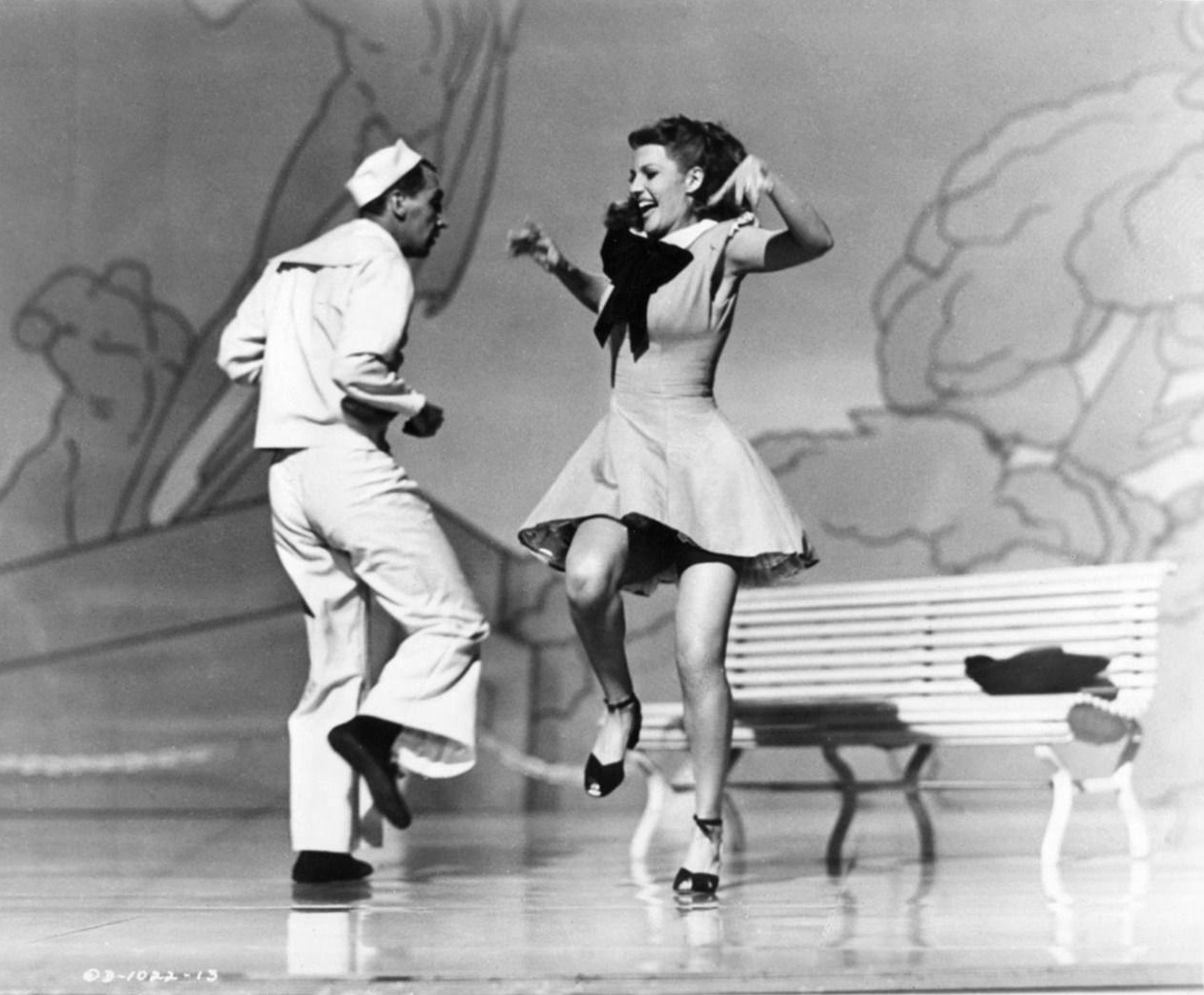 Promotional still from the 1945 film Tonight and Every Night, starring Rita Hayworth. Jack Cole (choreographer) is on the left.